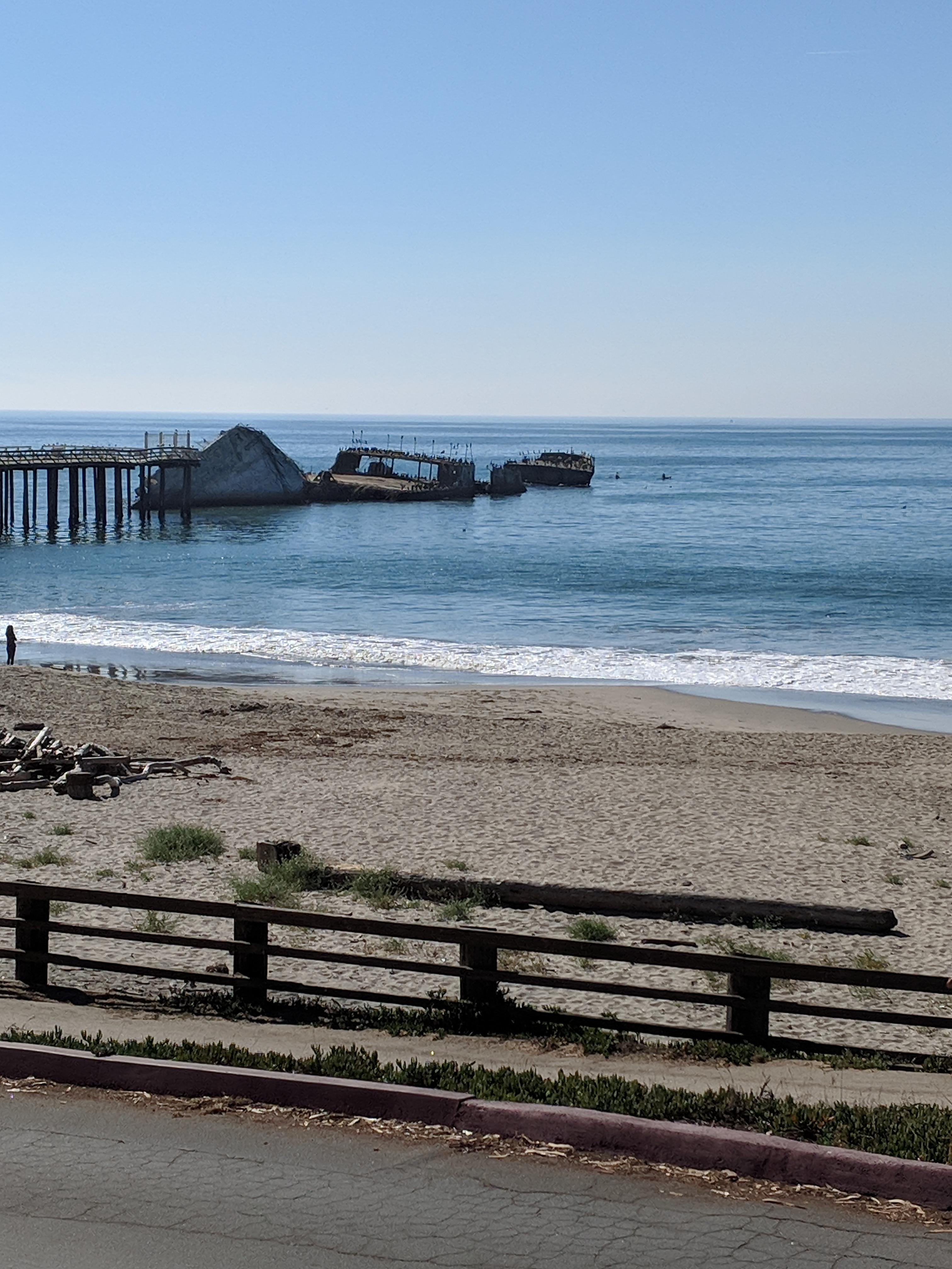 Remains of the concrete tanker SS Palo Alto, beached at the end of a pier in 1929 and retrofitted to serve as an amusement ship. Photo taken at Seacliff State Beach, Aptos, Calif., Oct. 17, 2018